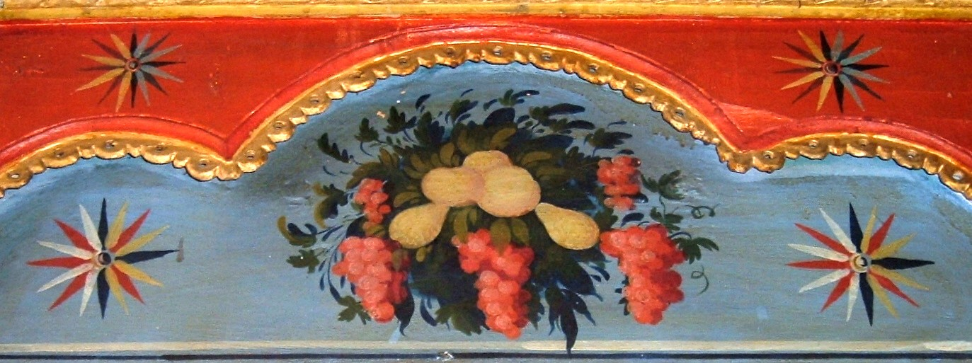 Saint Apostles Doltsa